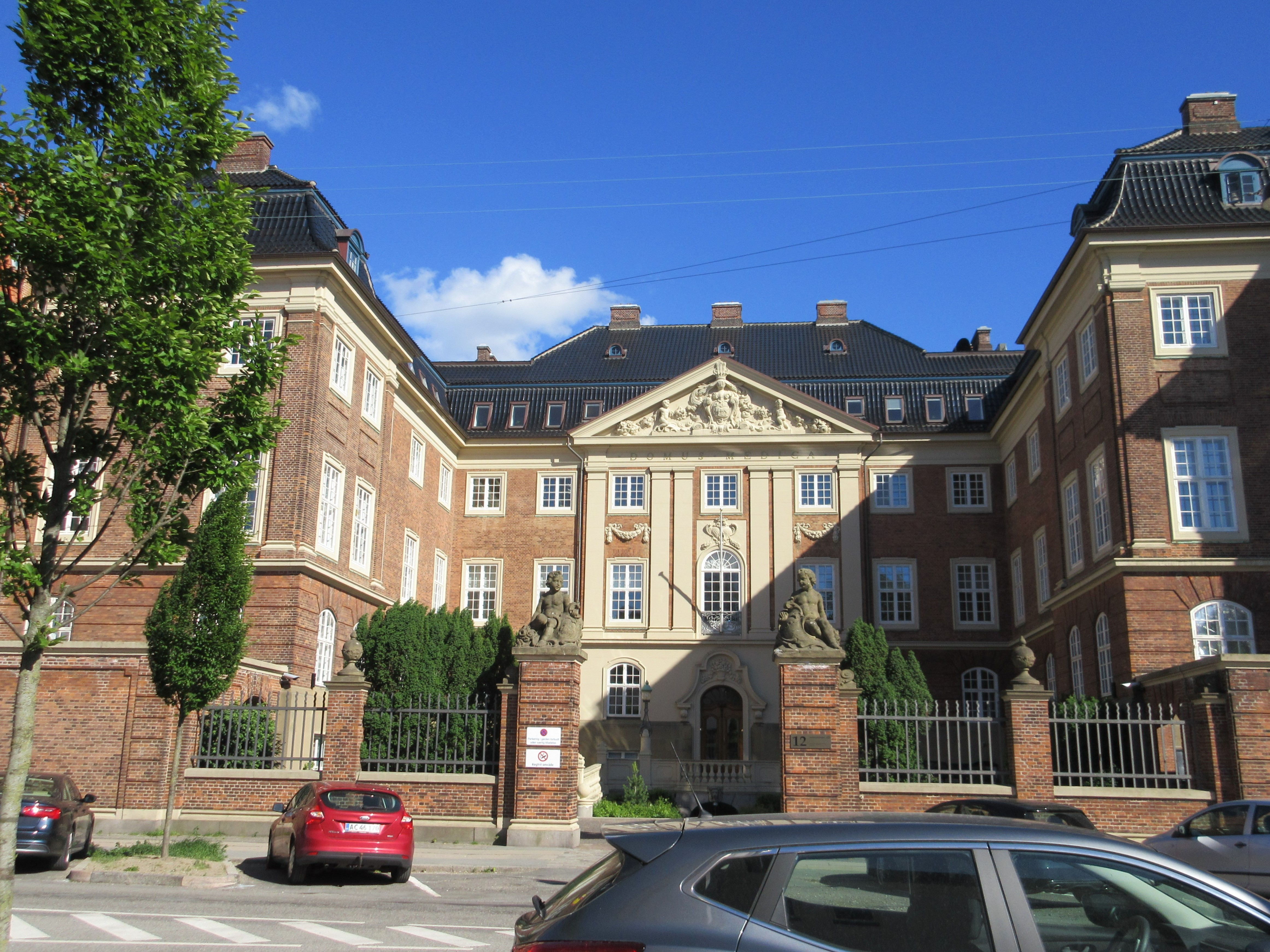 Domus Medica in Kritianiagade in Copenhagen, Denmark